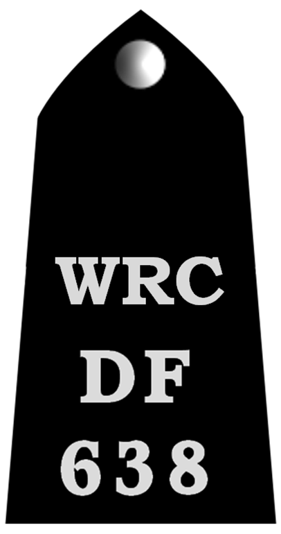 An epaulette from a British War Reserve Constable, with collar number, divisional sign and rank identifier.